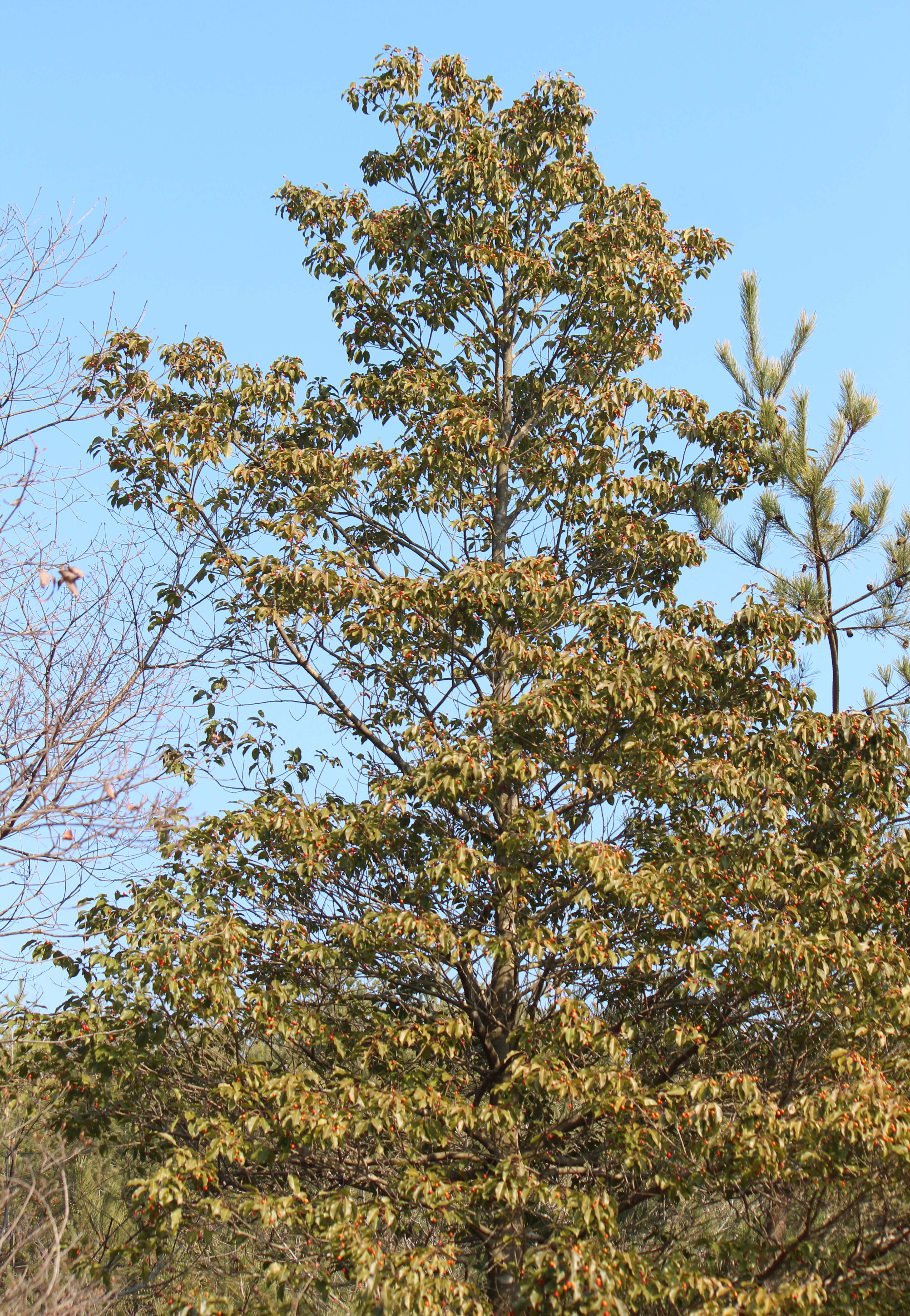 Ilex pedunculosa with many fruits, in Aichi prefecture, Japan.